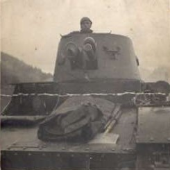 Marian Machocki, in the turret of his Vickers Mark E Type B light tank.